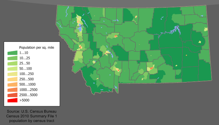 Showing the area of the state and shows the climate and land.